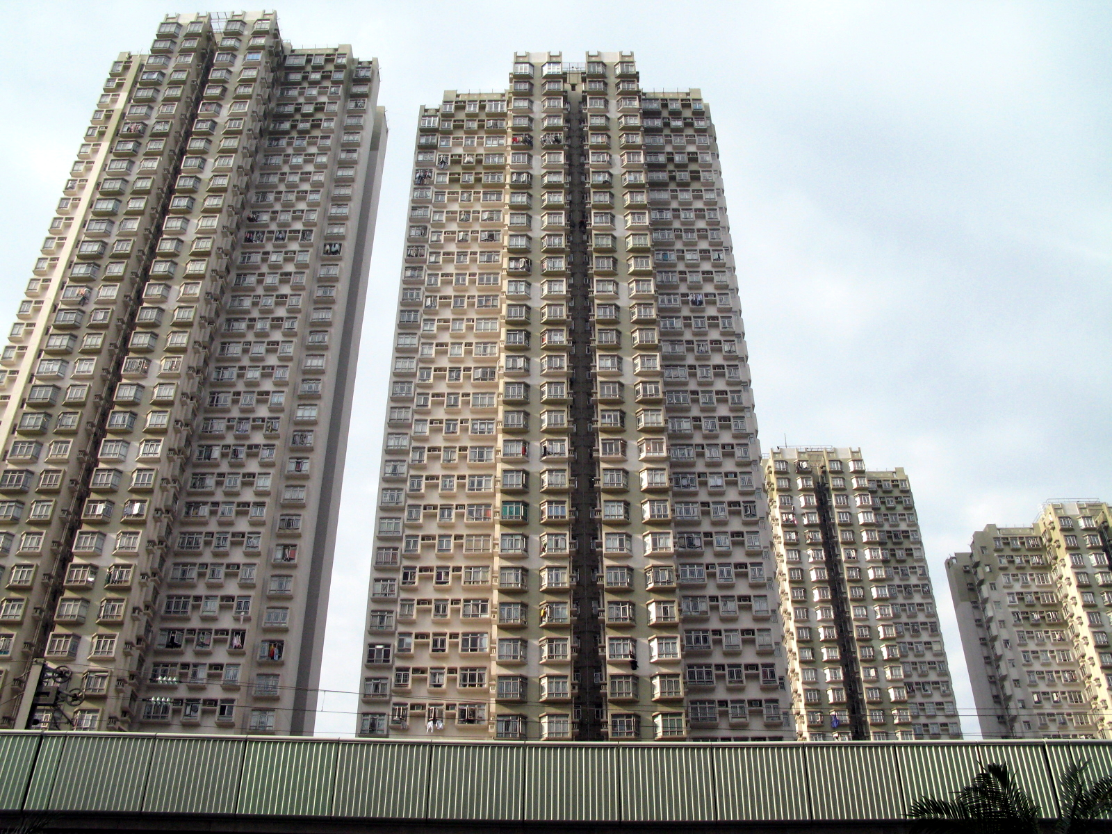 HK MOS Ma On Shan Centre